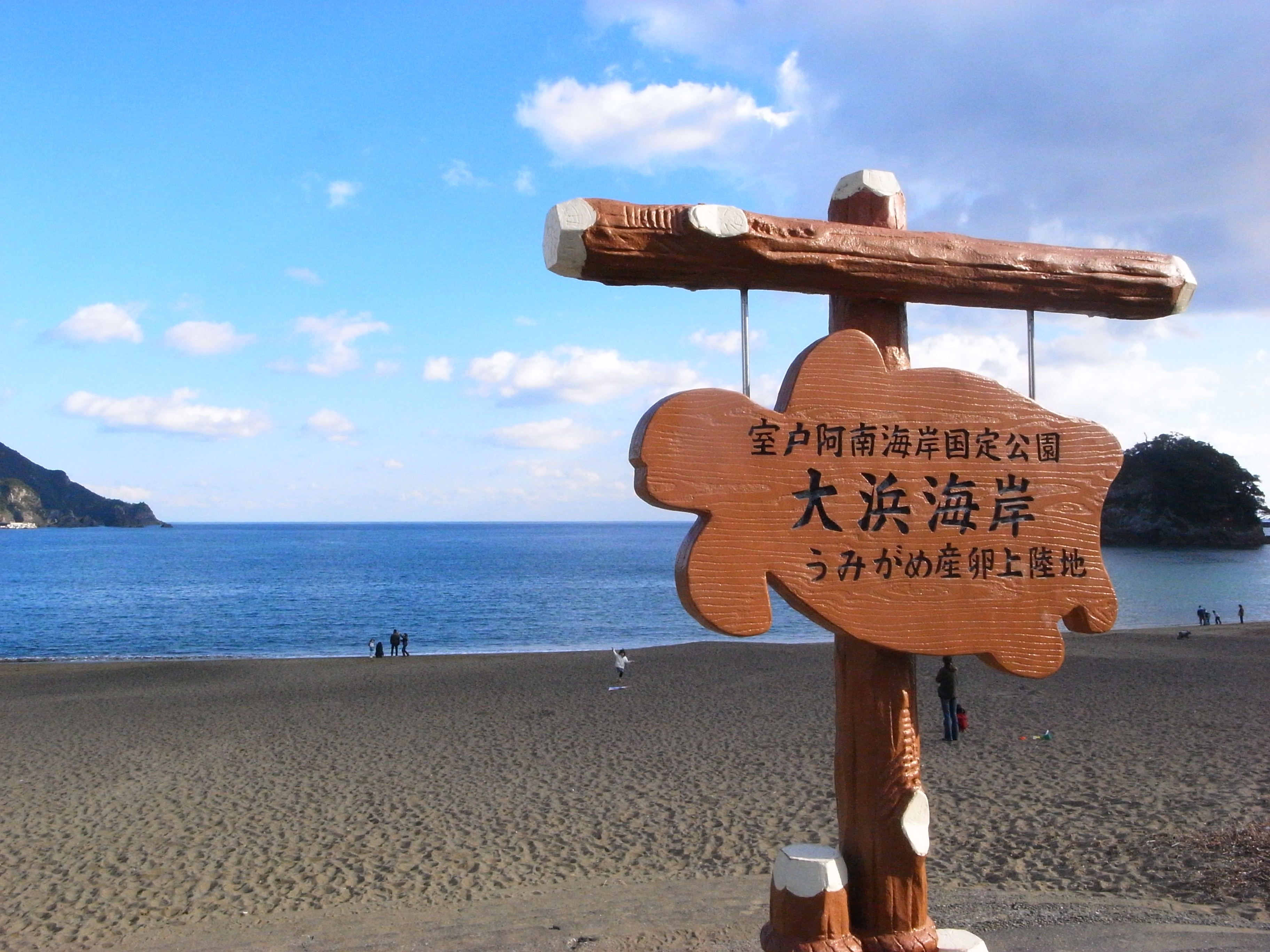 Ōhama Beach in Tokushima, Japan. Ricoh GR Digital II